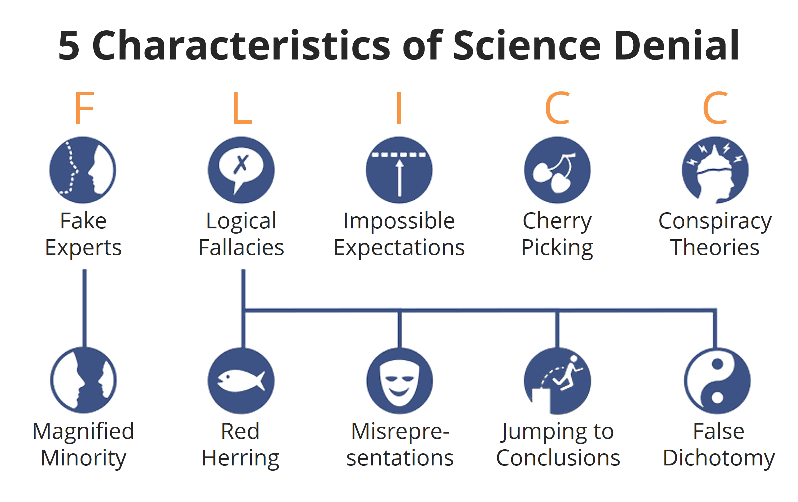 5 Characteristics of Science Denial: Fake Experts, Logical Fallacies, Impossible Expectations, Cherry Picking, Conspiracy Theories.